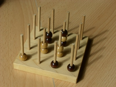 connect four game in 3D, made of wood